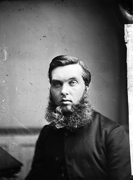 1 negative : glass, wet collodion, b&w ; 11 x 8.5 cm.